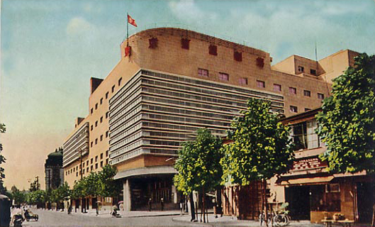 Tokyo Takarazuka Theater in the pre-war time.